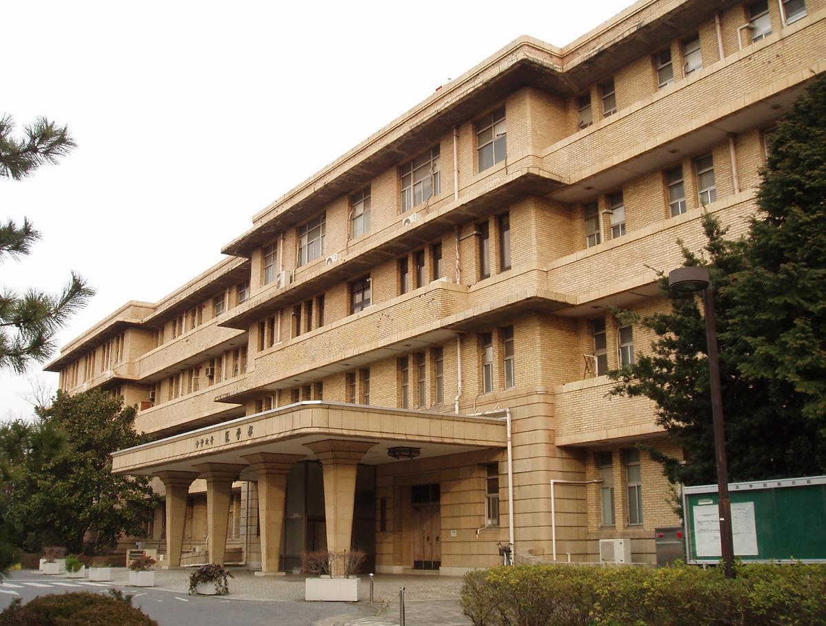 The Main Bldg. of the Faculty of Medicine, Chiba University. Built in 1936 as the University Hospital. Located in Inohana, Chuo-ku, Chiba City, Japan.